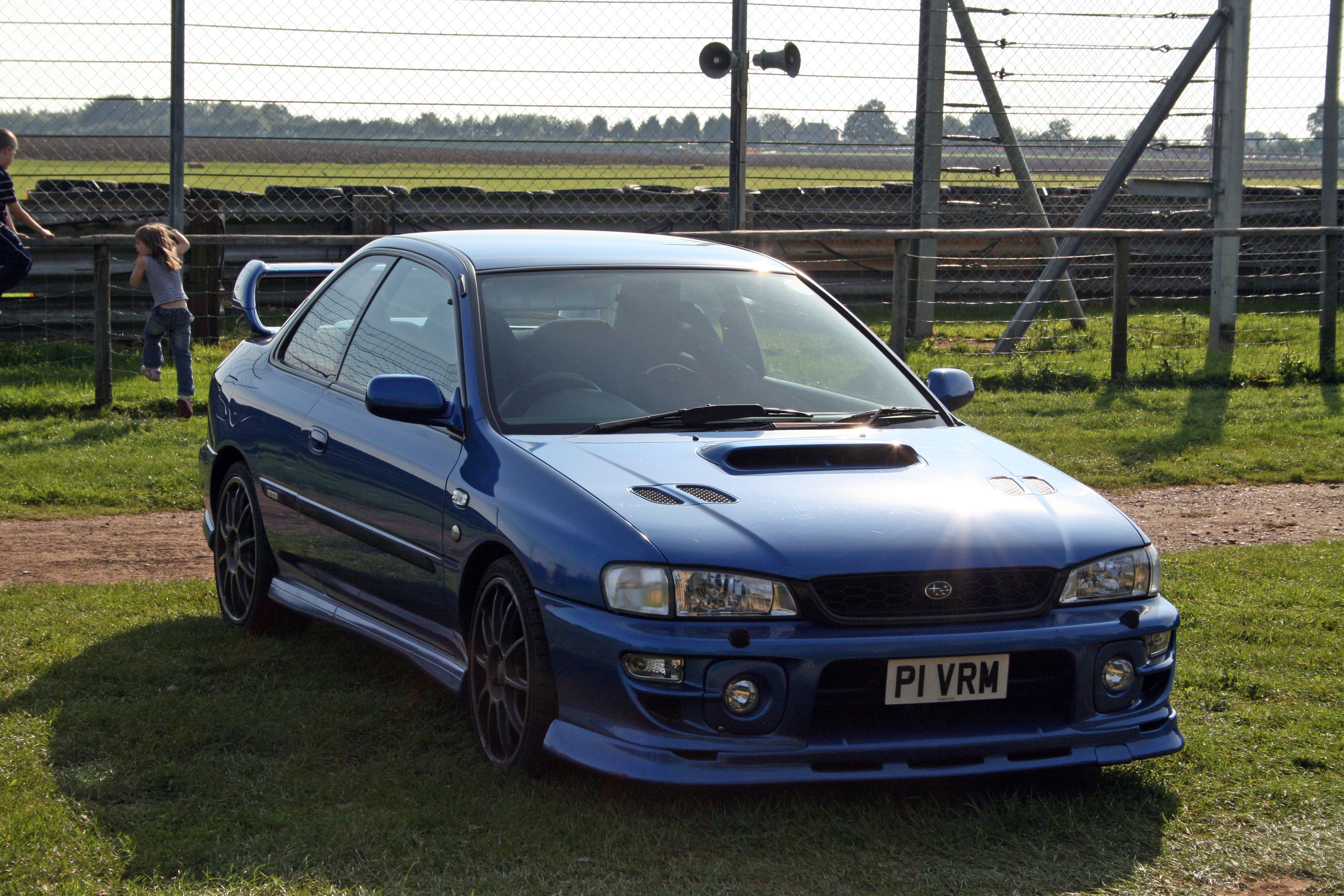 Subaru Impreza Prodrive P1.